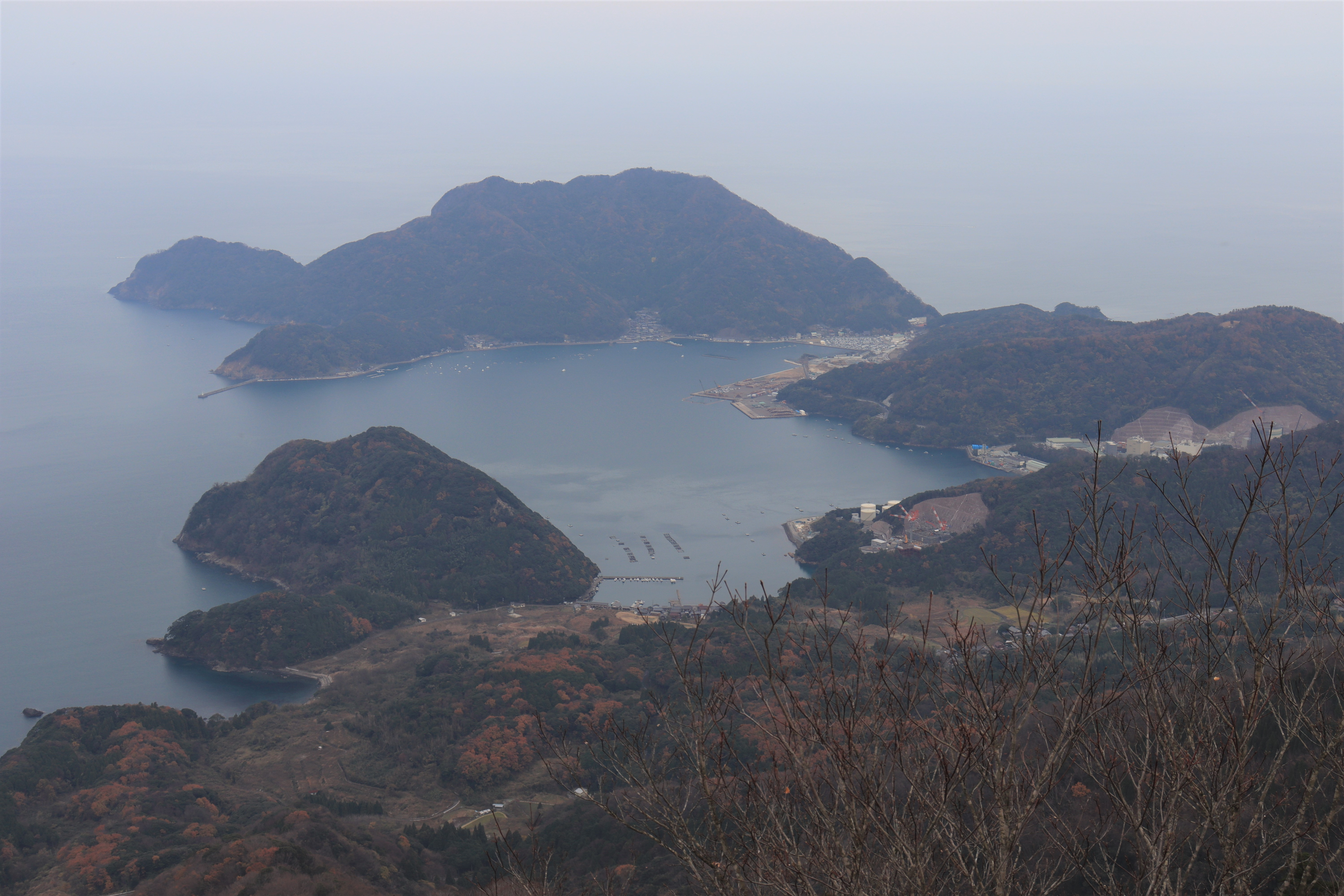 Otomi Peninsulas seen from Mount Aoba in Takahama, Fukui Prefecture, Japan.